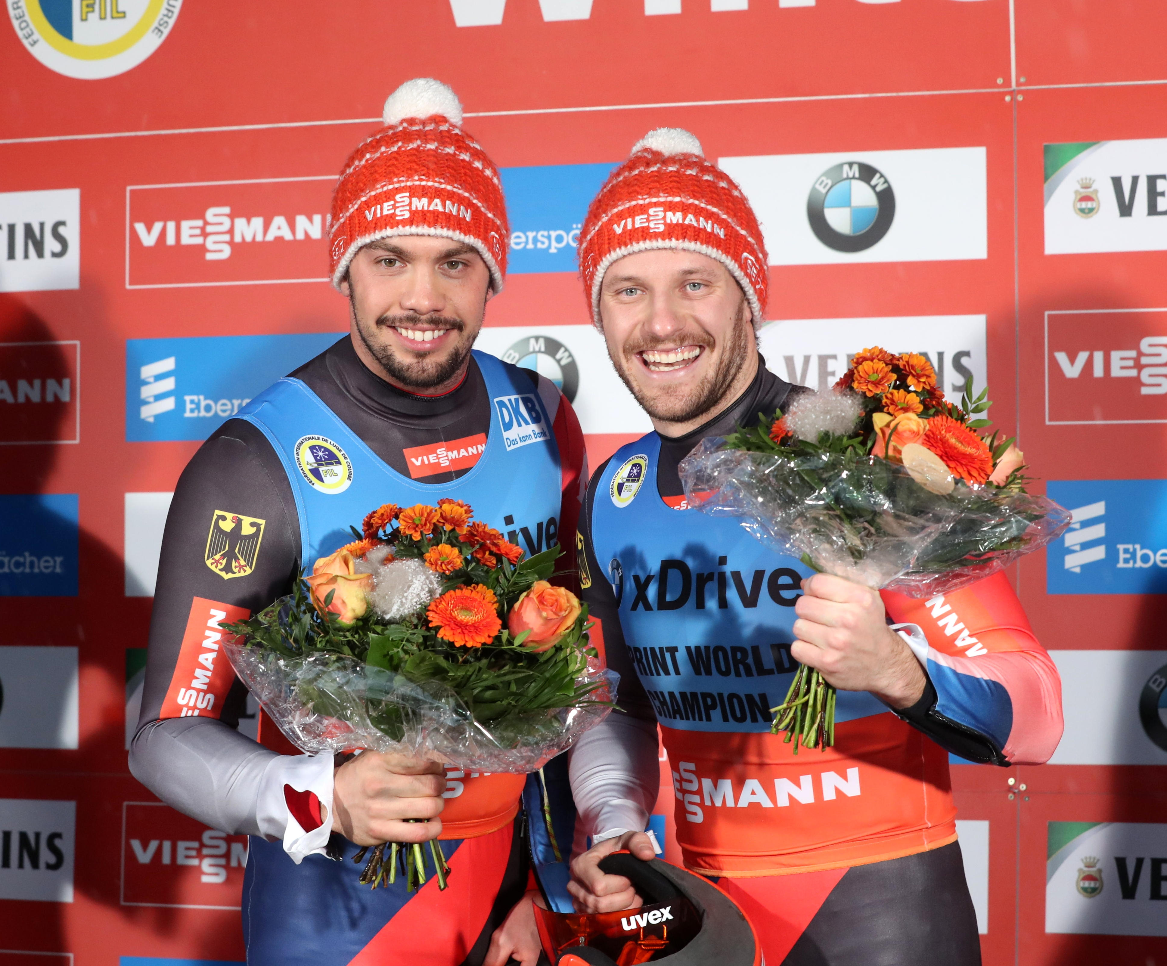 Sprint World Cup Doubles in Winterberg: Tobias Wendl, Tobias Arlt